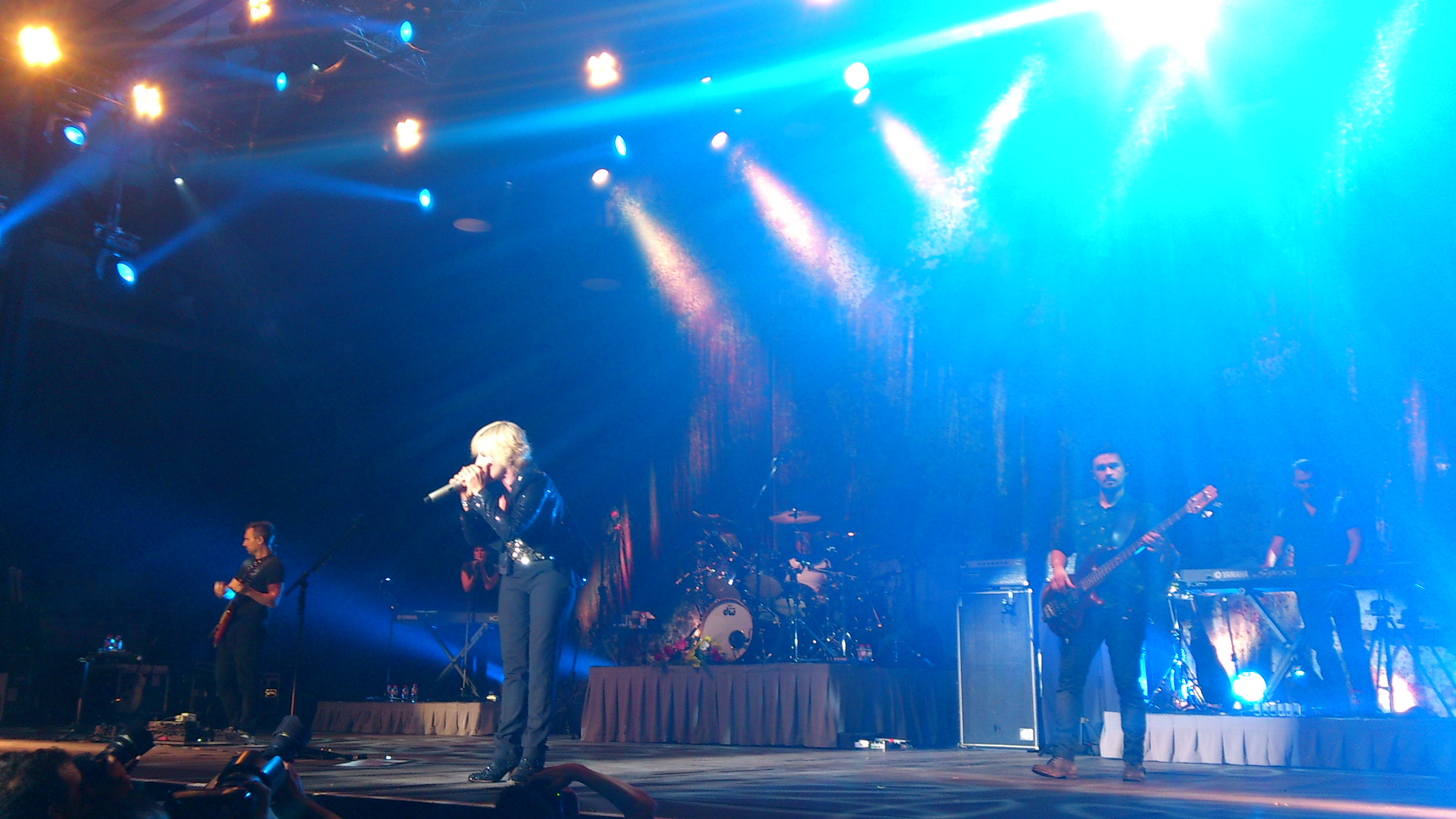 Cranberries Live In BCN (Spain) night 10_4_2012